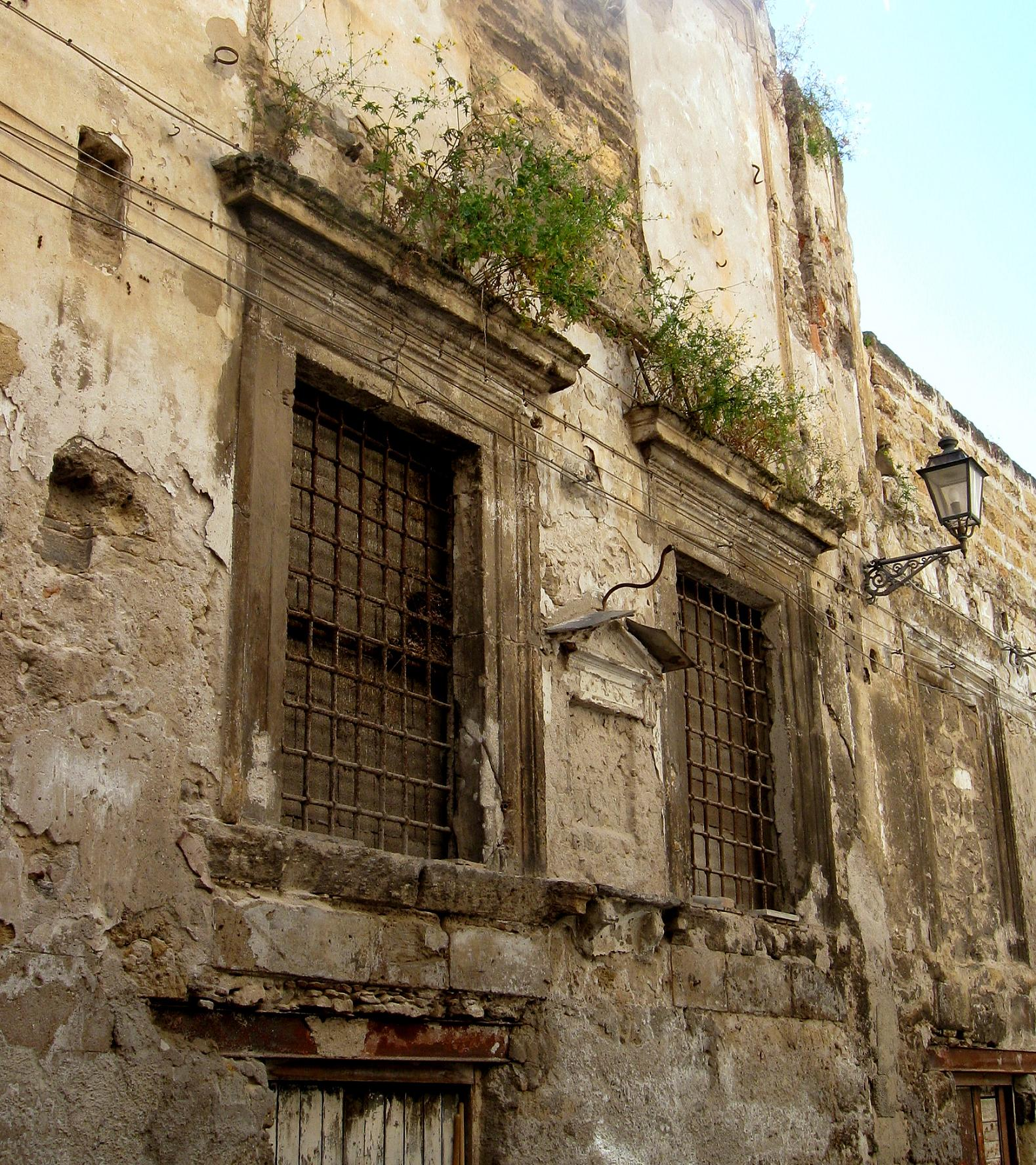 Palazzo Lampedusa, boyhood home of Giuseppe Tomasi di Lampedusa, author of "The Leopard" ("Il Gattopardo"). It was destroyed by bombing in World War II.